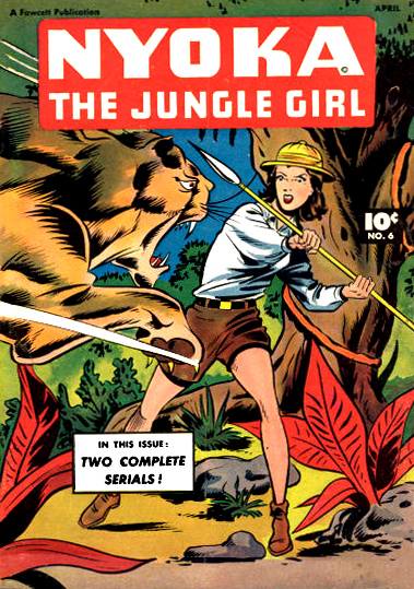 Cover of Nyoka the Jungle Girl No. 6, April 1947, Fawcett Comics